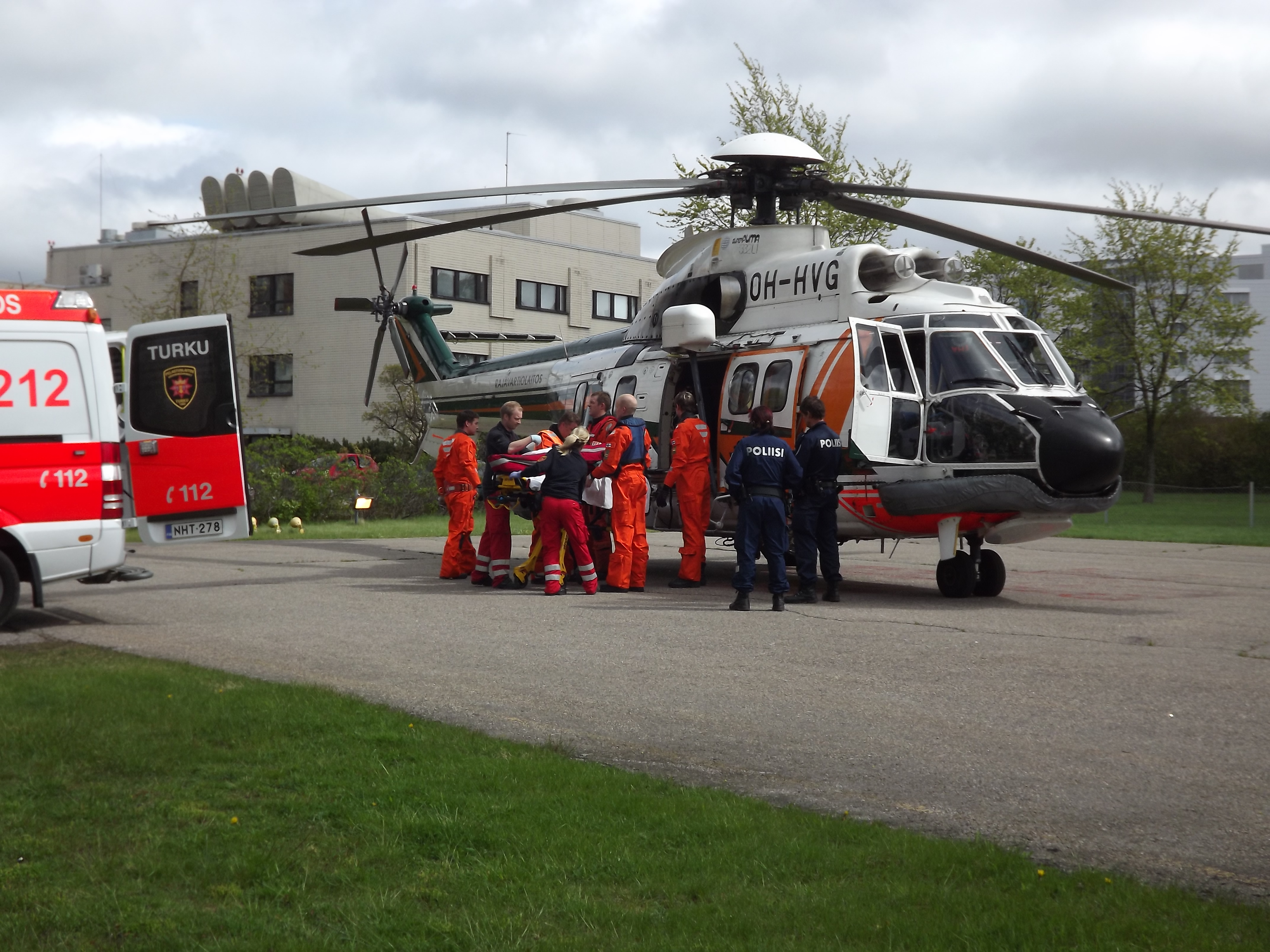 Moving "patient" from helicopter (OH-HVG: Super Puma of the Boarder Guard) to ambulance at Turku University Hospital during an exercise. Policeman and -woman (who take care of traffic on the road during landing and take off) watching.